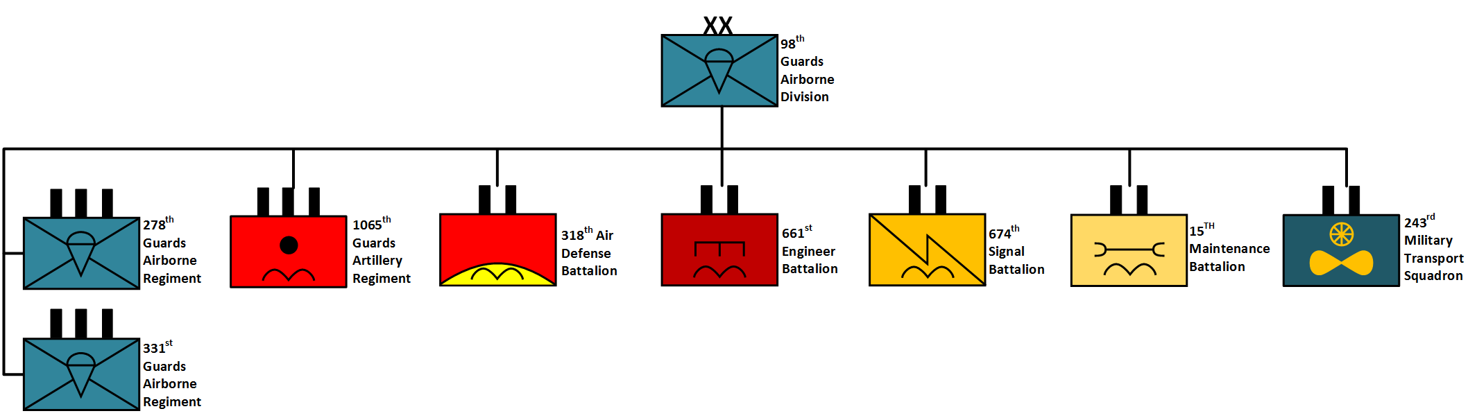 Order or battle graphic showing the Russian 98th Guards Airborne Division in 2009